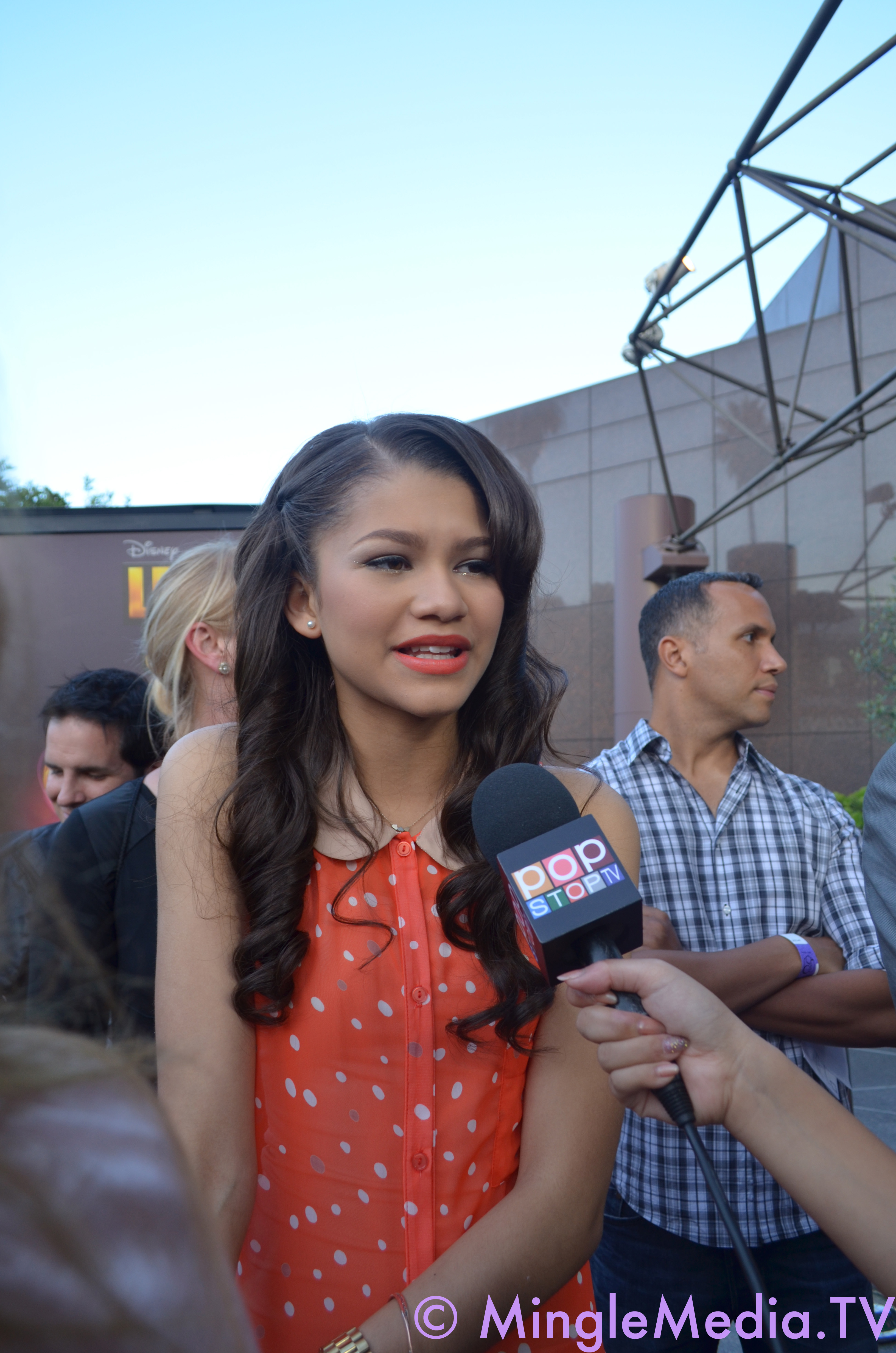 Zendaya “Let It Shine” Premiere